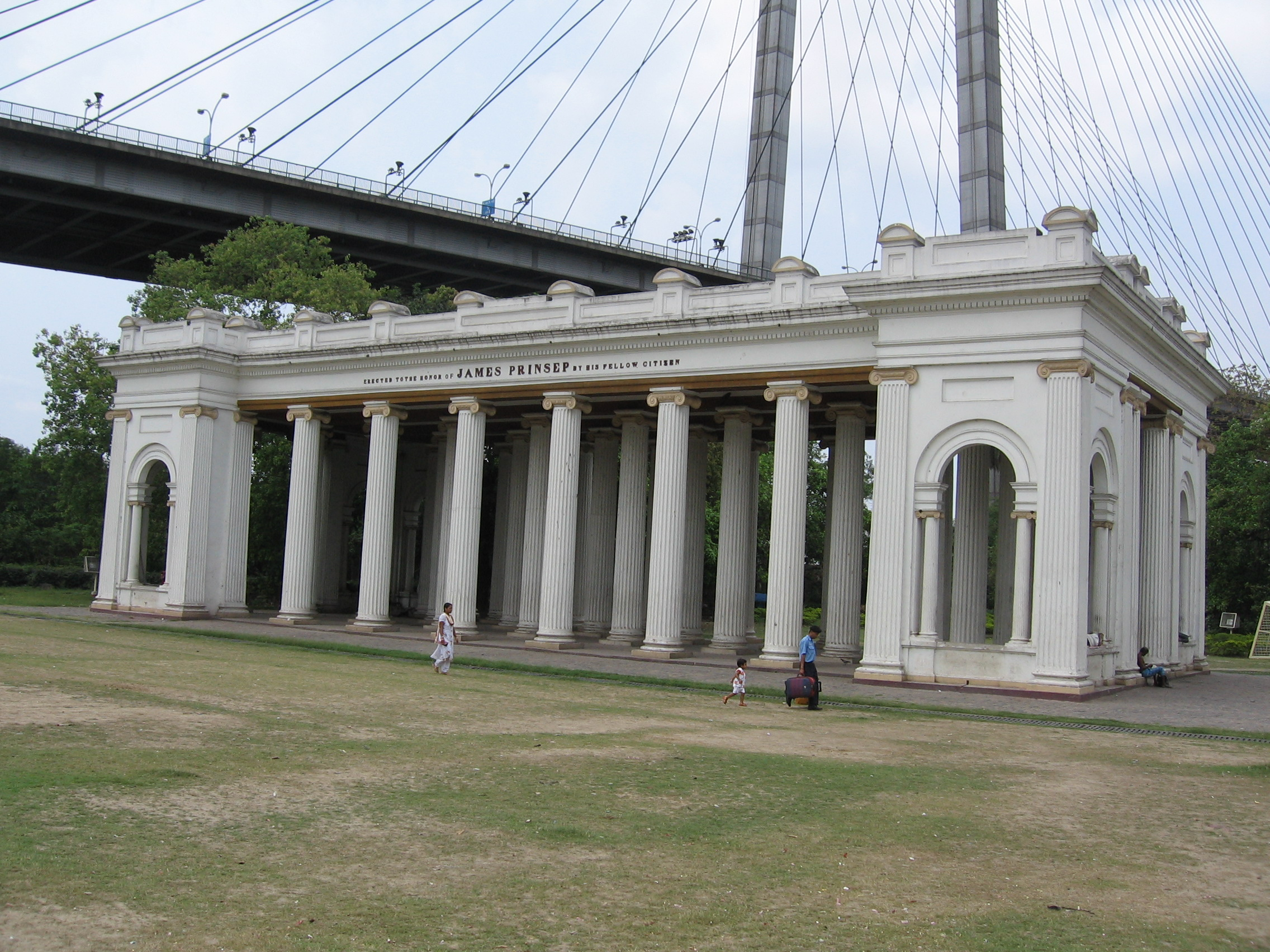 Prinsep's Ghat, on the Hooghly (Kolkata) is a memorial named in honor of the Anglo-Indian scholar and mint assayer James Prinsep.